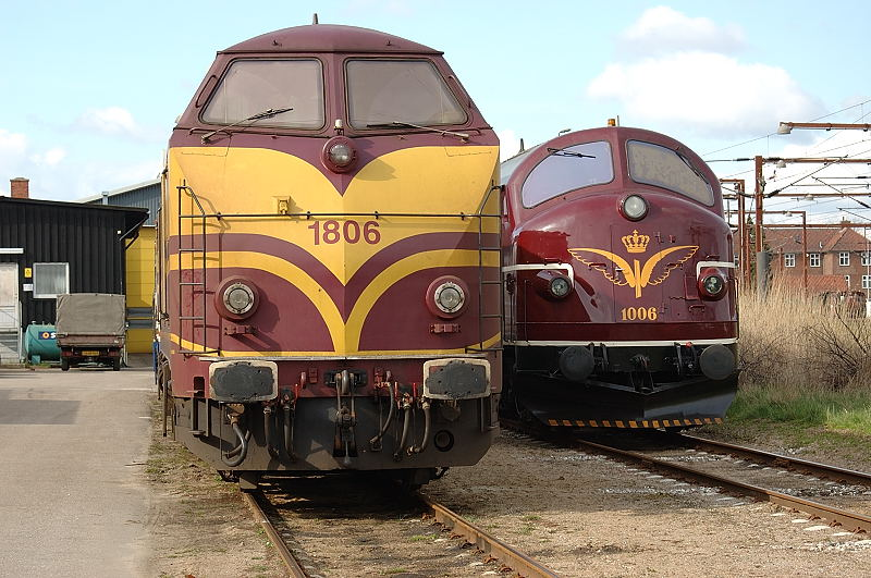 CFL Cargo diesellocomotives 1806 and 1006 at Padborg, Denmark